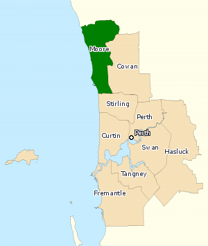 This image incorporates data that is: © Commonwealth of Australia (Australian Electoral Commission) 2009 Division of Moore 2010